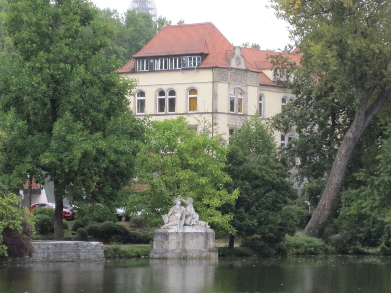 Artificial lake with sculpture in Tübingen (Germany)